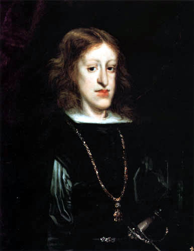 King Charles II of Spain, (1661-1700) by Don Juan Carreño de Miranda.